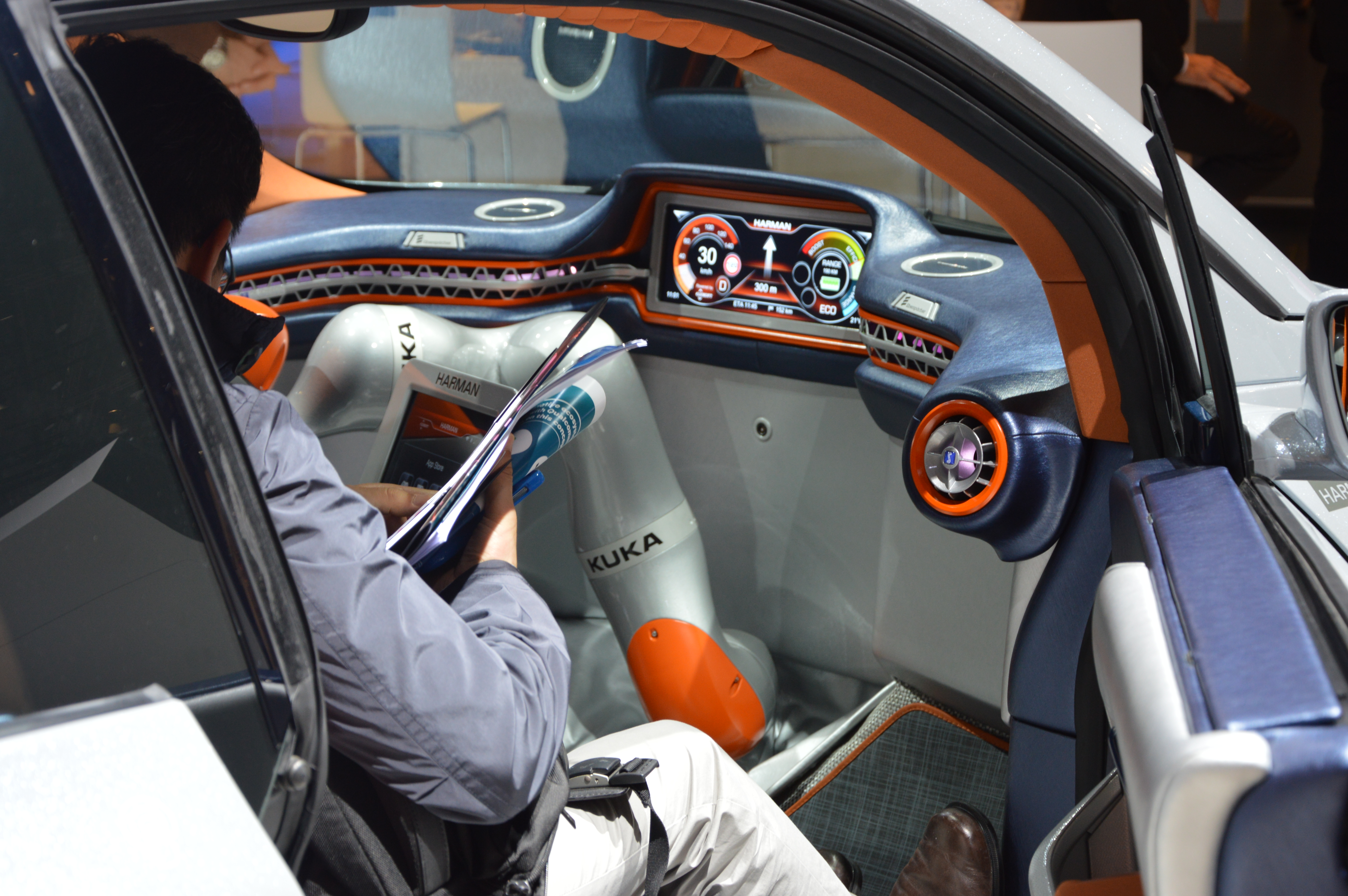 Dashboard of Rinspeed Budii. Photo taken at exhibition IAA 2015 in Frankfurt, Germany.